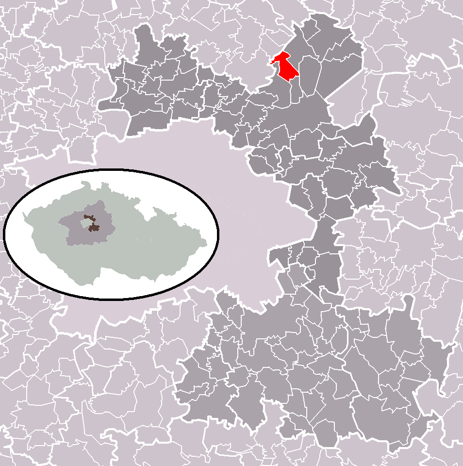 Location of Křenek municipality within Prague-East District and administrative area of Brandýs nad Labem-Stará Boleslav as a Municipality with Extended Competence.